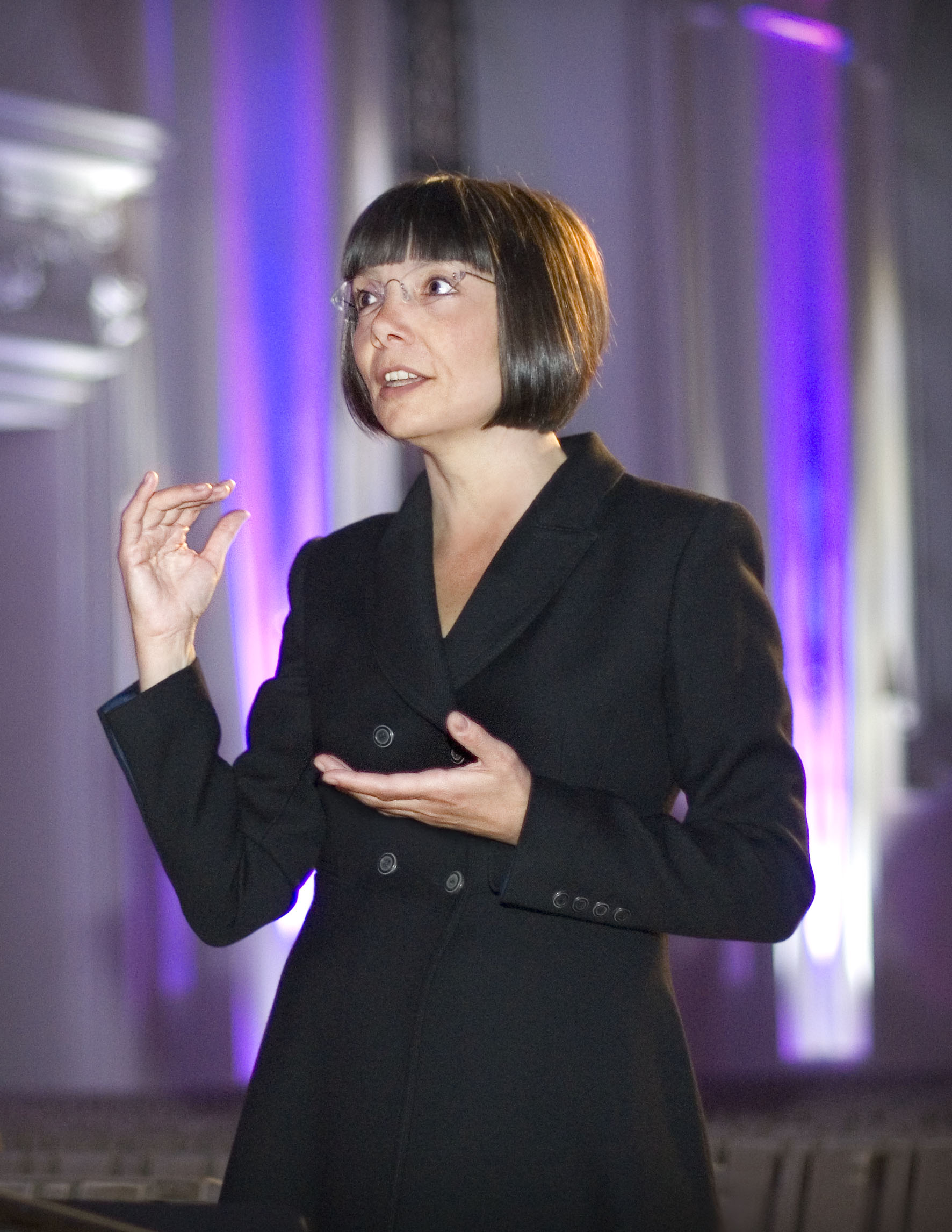 Pia Praetorius, conductor and music director St. Egidien Nuremberg